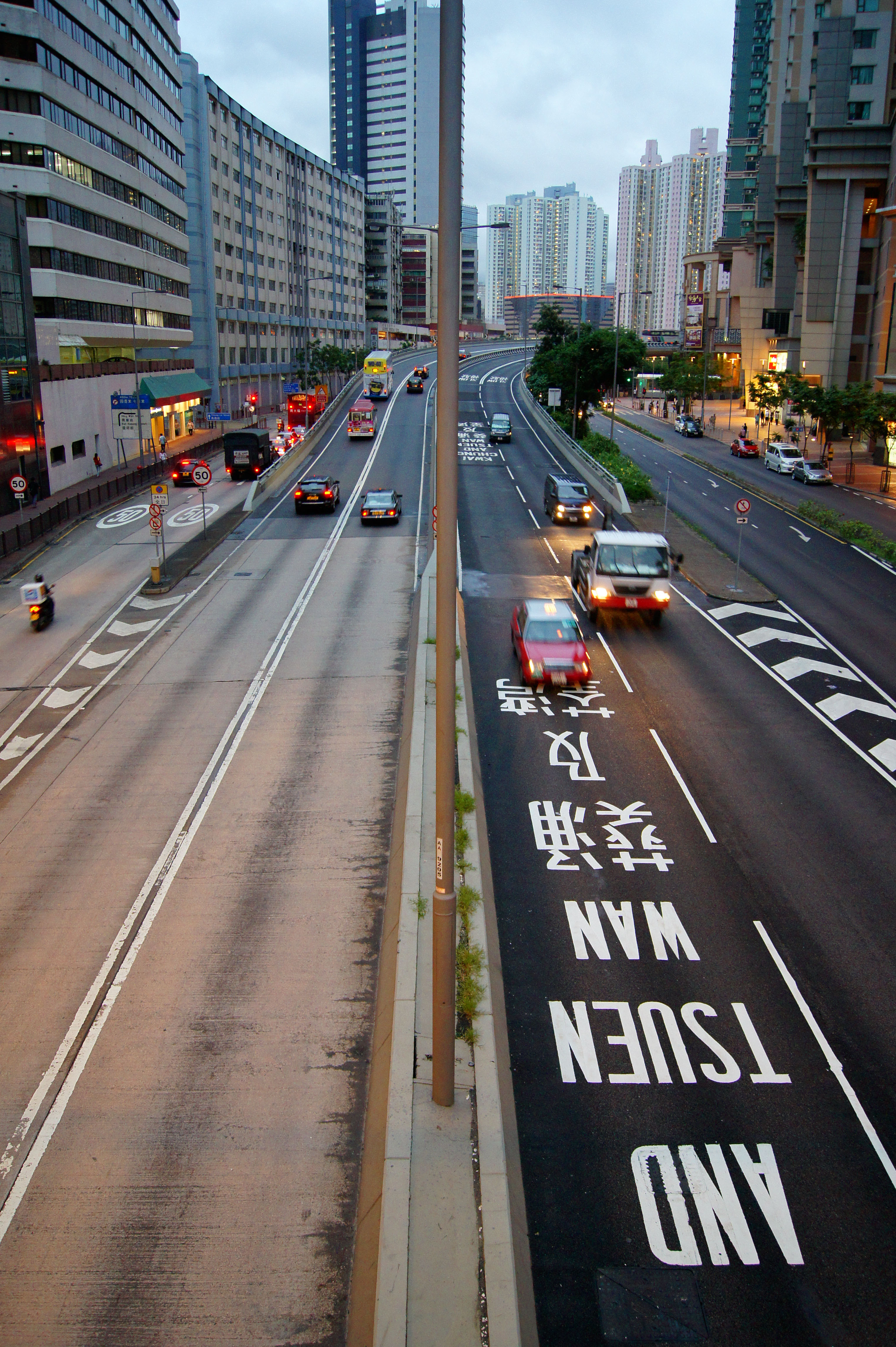 Lai Chi Kok Road (near Banyan Garden), West Kowloon Corridor (Cheung Sha Wan Entrance)